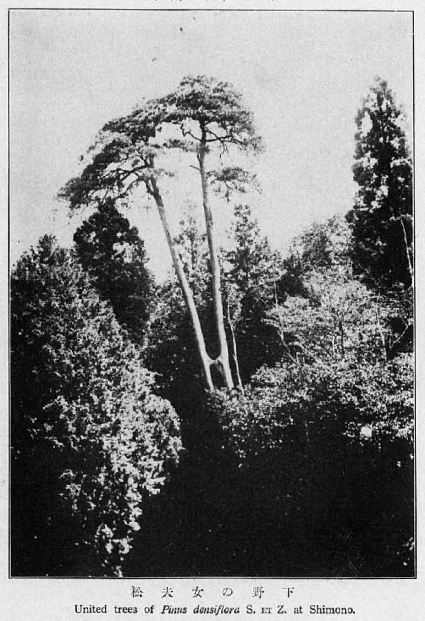 United trees of Pinus densiflora at Shimono, Nakatsugawa, Gifu prefecture, Japan.